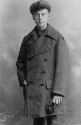 Photograph of Henry Allingham in Royal Naval Air Service uniform during World War I.